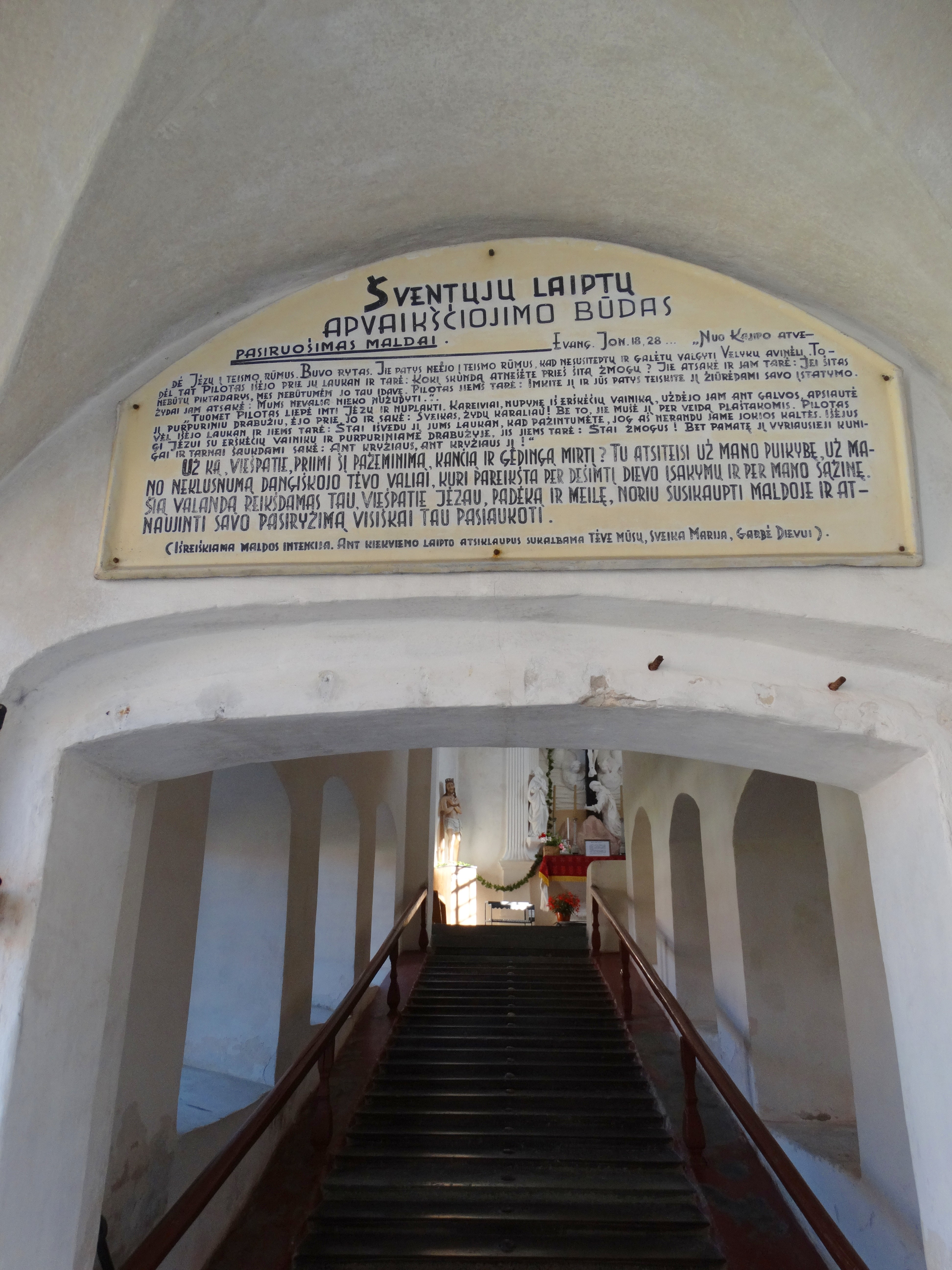 Monastery chapel, Tytuvėnai, Kelmė district, Lithuania